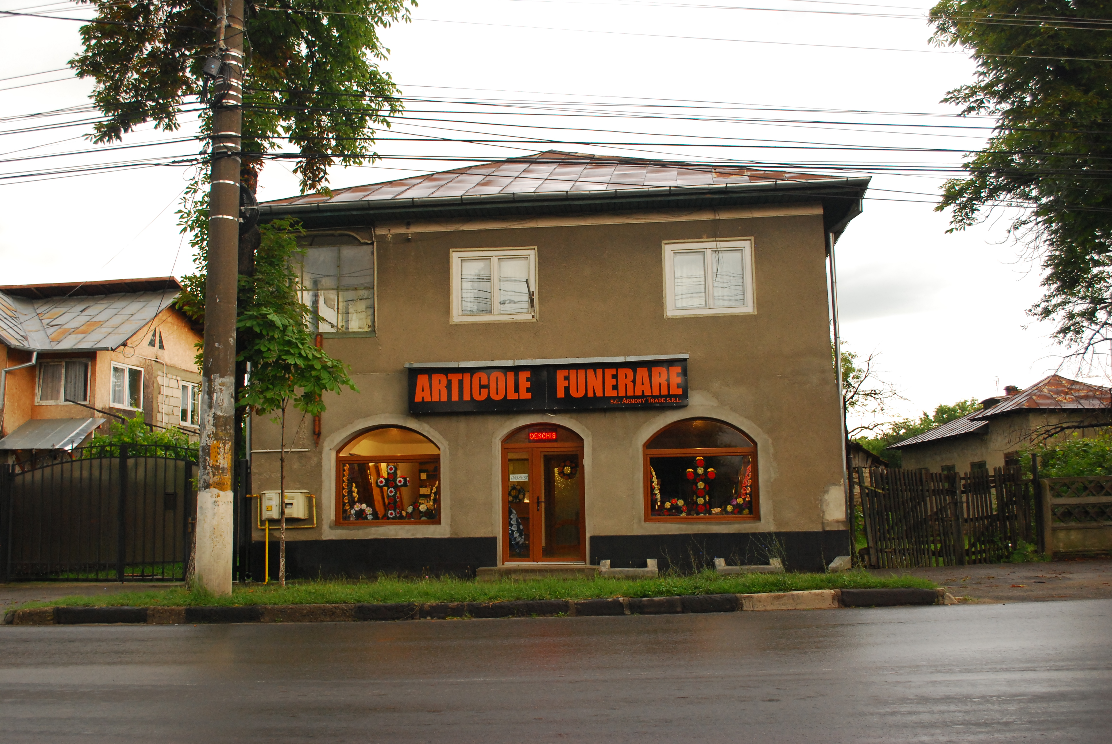 Former inn in Vălenii de Munte, Prahova County, RomaniaRomână: Fost han din Vălenii de Munte, județul Prahova, România